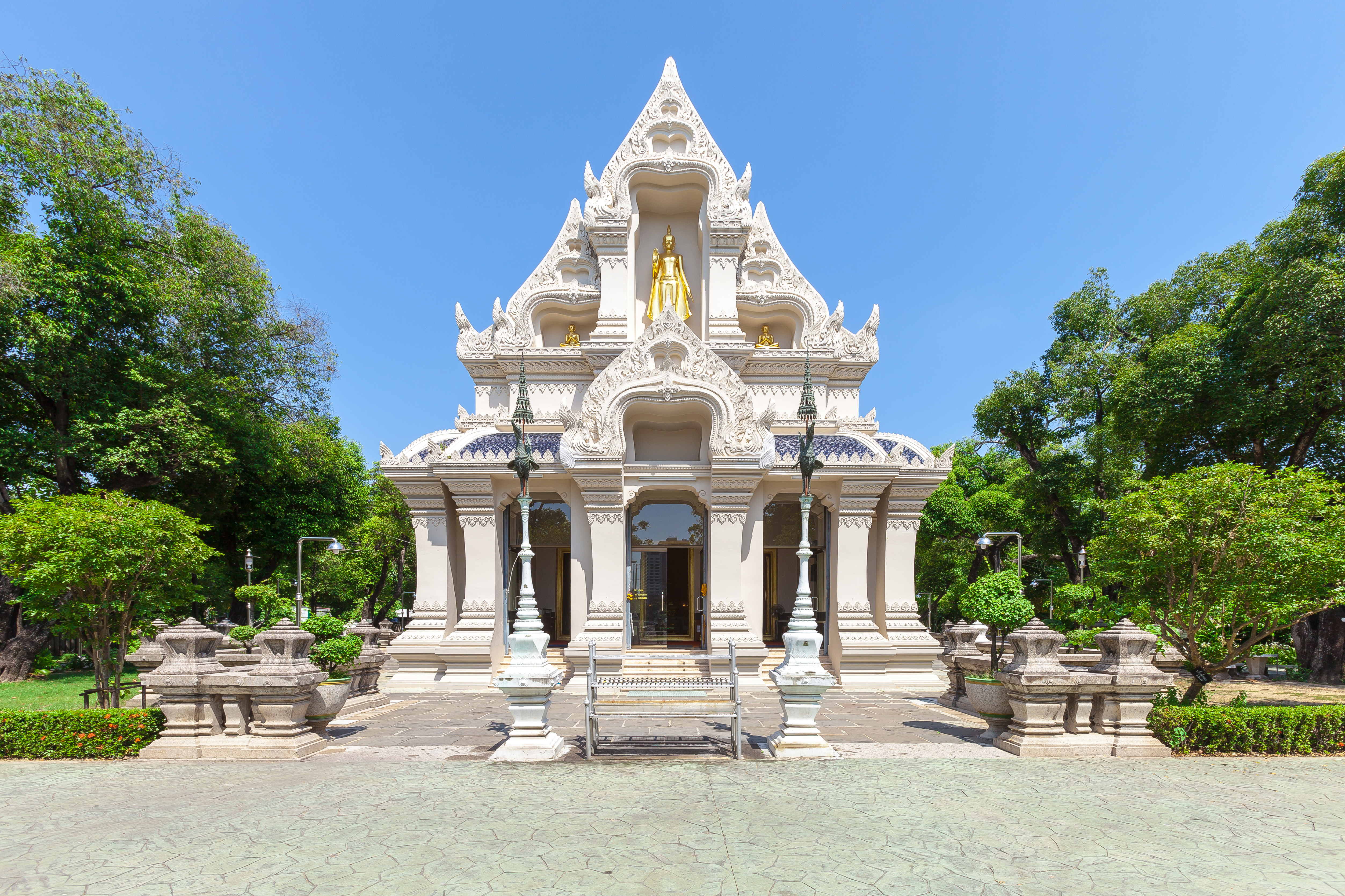 Ubosot of Wat Rachathiwat Ratchaworawiharn, BKK.